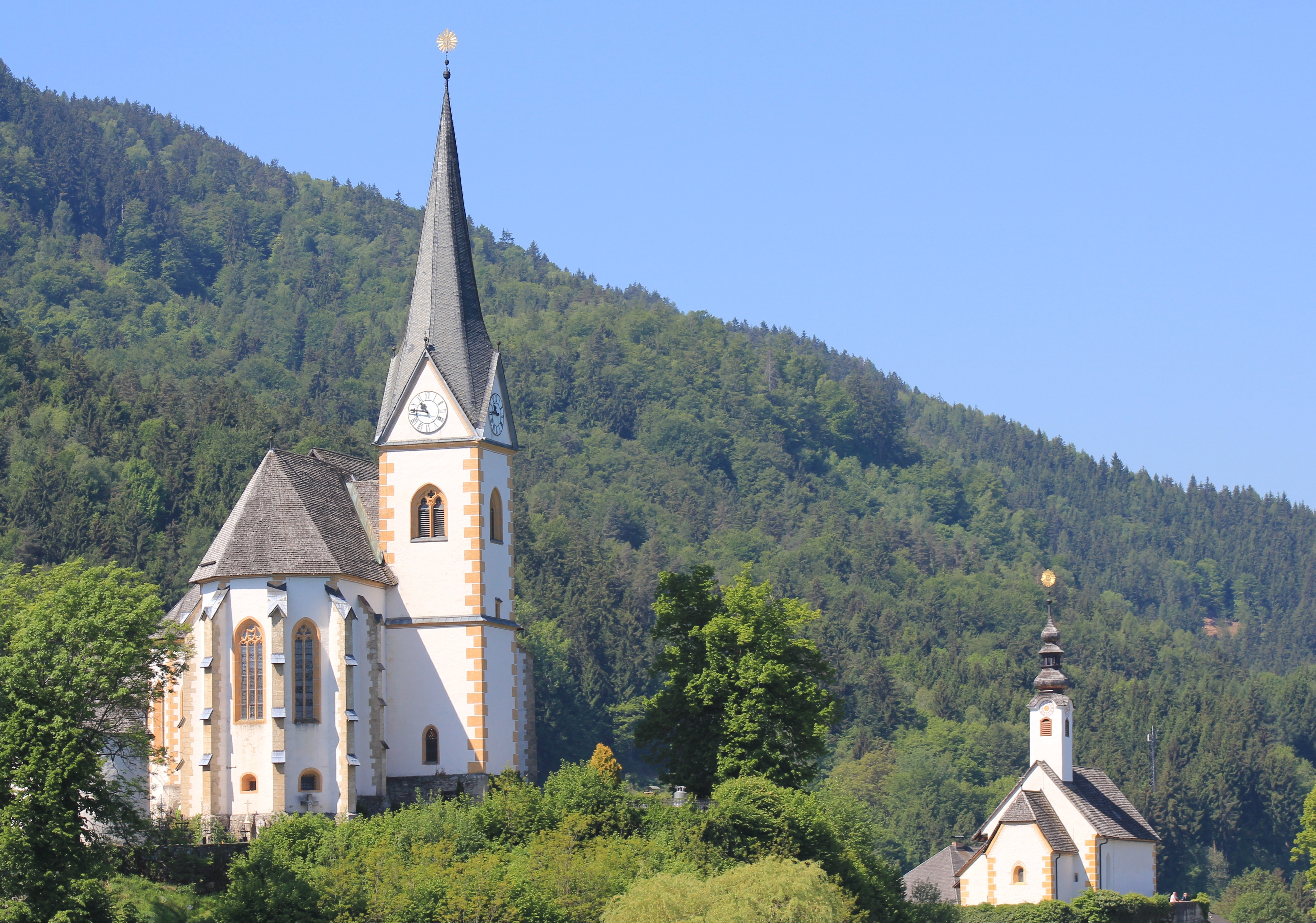 Parish church Saint Primus and Felicianus and so called Winter church, in Maria Wörth, Carinthia